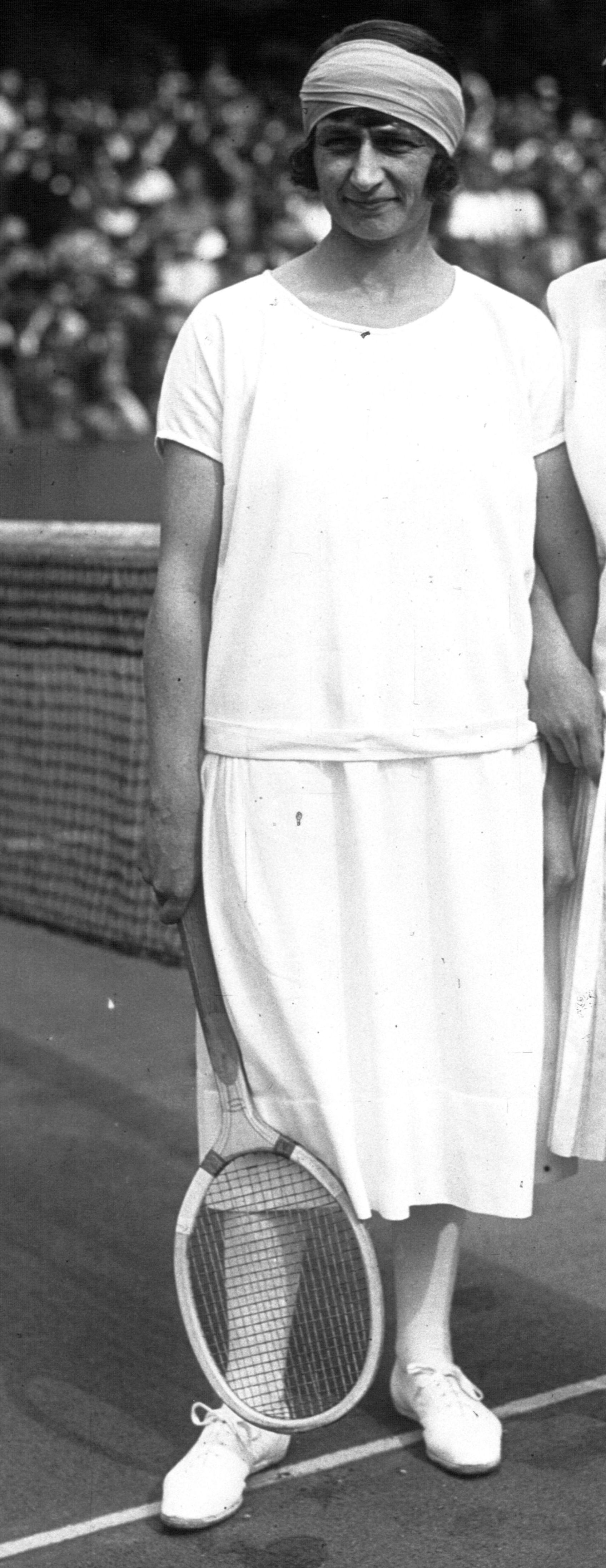 Tennis player Kathleen McKane at the French Championships in Saint-Cloud in 1925.